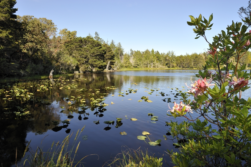 New River, Oregon Running parallel to the Pacific Ocean for nine miles, this BLM-administered coastal river is separated from the ocean by only a thin foredune of sand. Many rare birds, animals, and plants depend on New River’s estuary, forest, meadow, wetland, and shrub habitat for survival. Dedicated almost exclusively to Watchable Wildlife, the area remains secluded and primitive, providing nature enthusiasts with short, rustic, self-guided loop trails to view wildlife. ACECs are places where special management attention is needed to protect and prevent irreparable damage to important historic, cultural and scenic values; fish, wildlife resources or other natural systems or processes; or to protect human life and safety from natural hazards. Learn more: bit.ly/blmacec. Photo by Frank Price